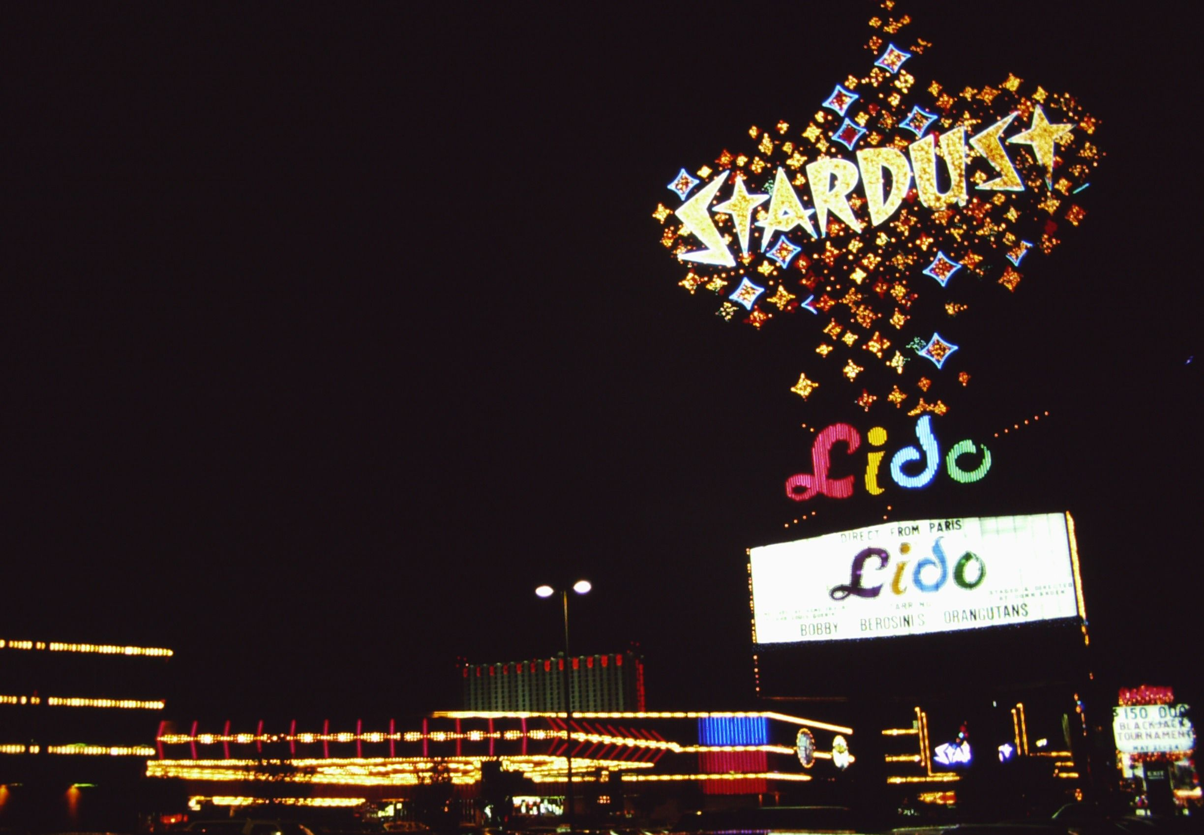 Stardust Hotel and Casino, Las Vegas, Nevaa, USA. Neon sign at the Las Vegas Strip by night, 1990